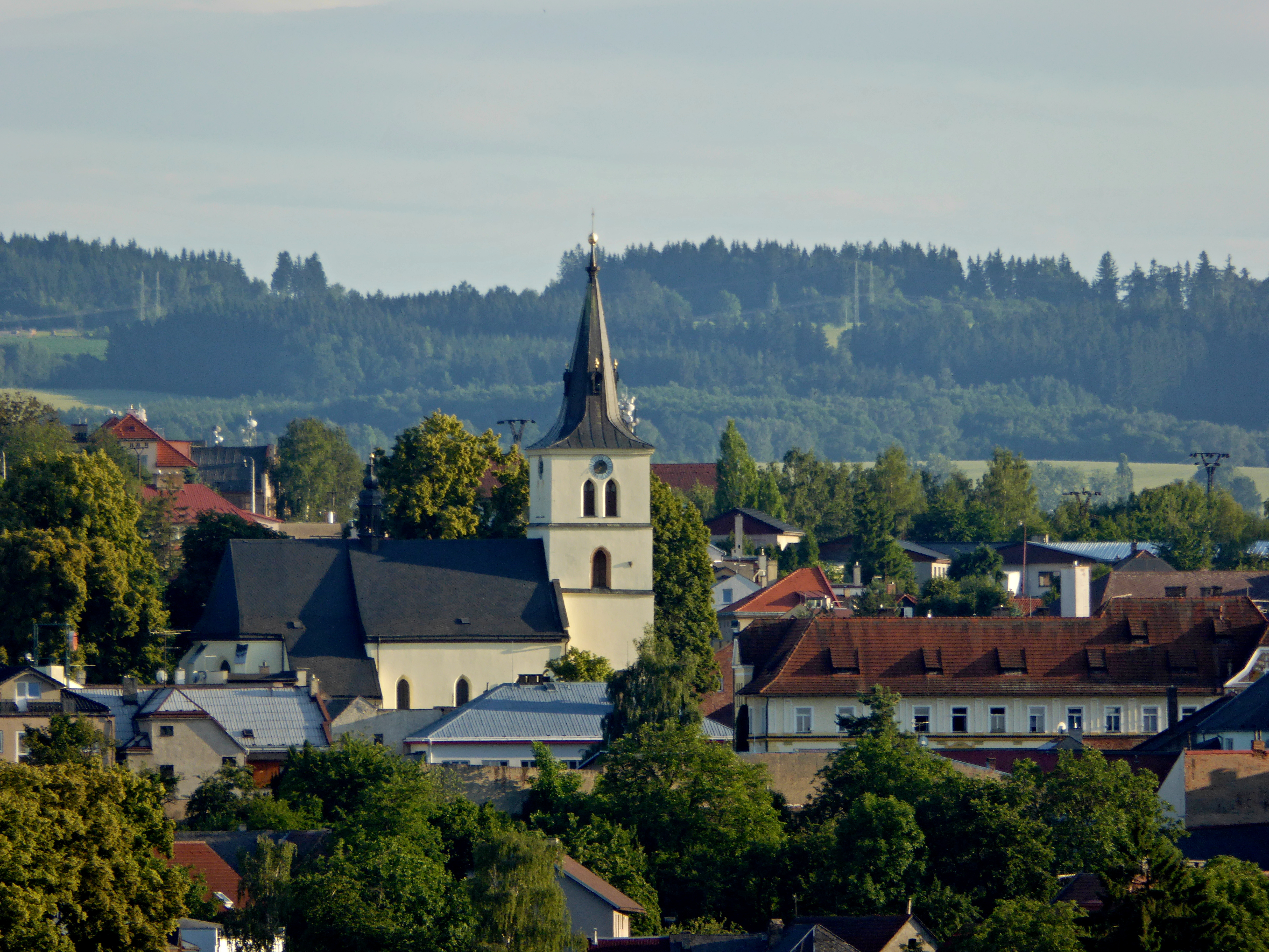 Church of the Assumption of Virgin Mary in Skuteč. Photo location - Czechia, Pardubice Region, Skuteč town, information habitat of National Geopark - Iron Mountains.